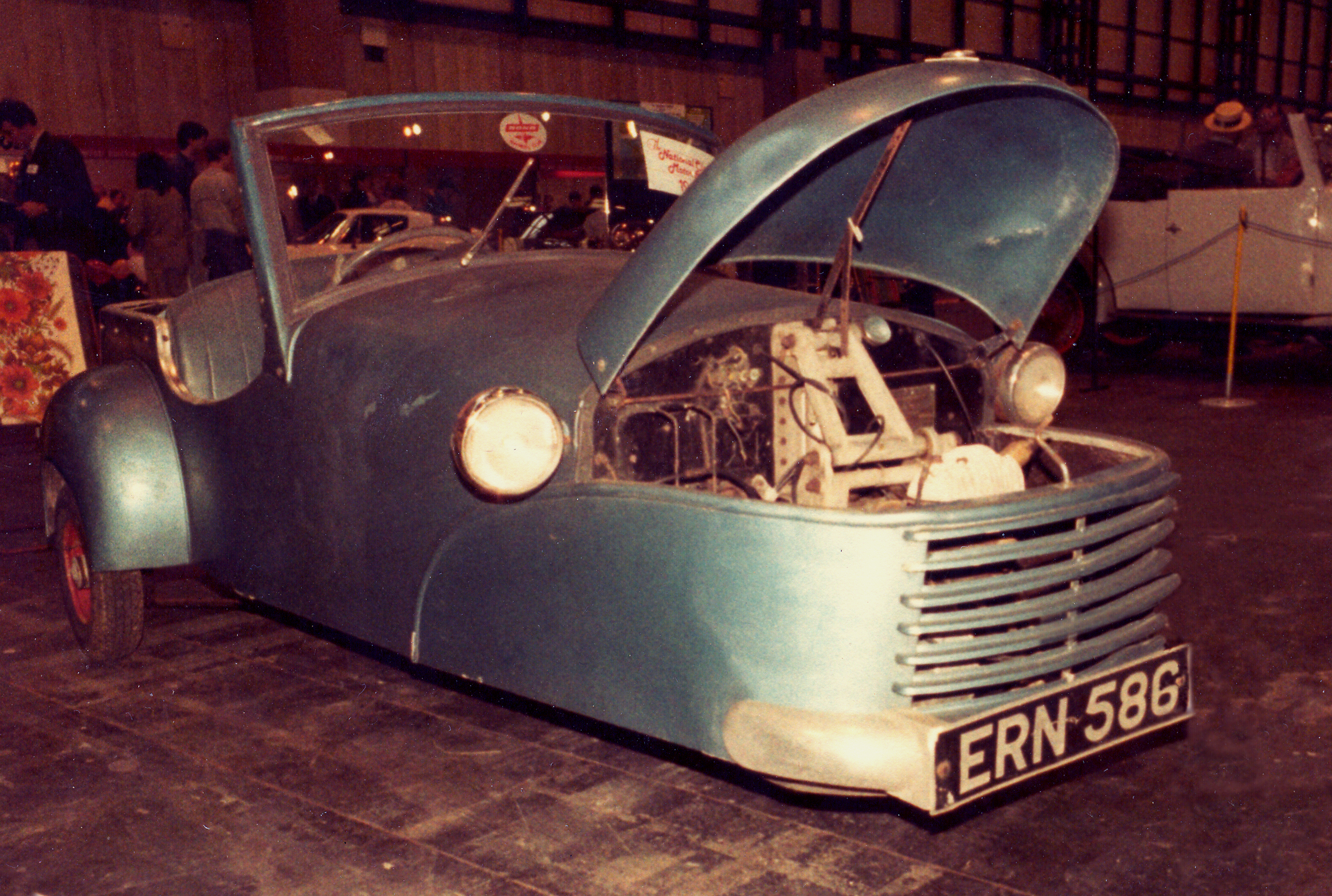 A Bond Minicar Mark B Tourer at the National Classic Motor Show in May 1985